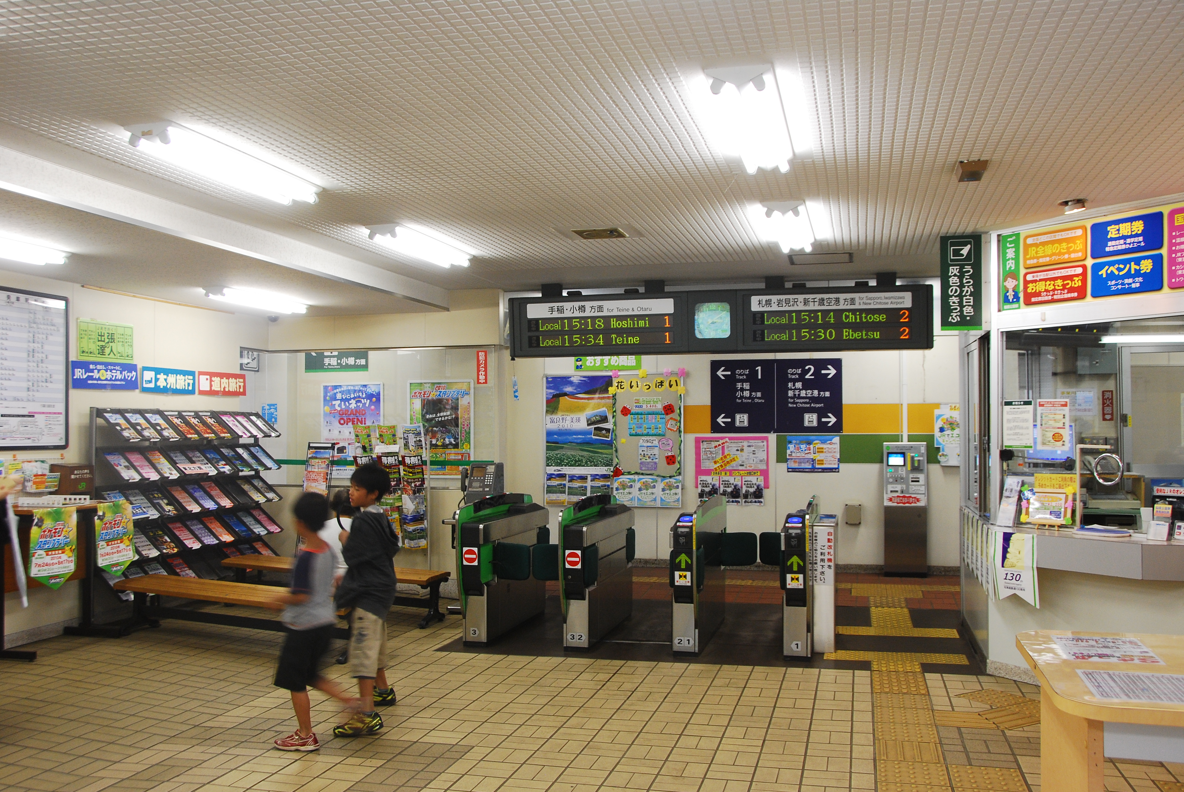 稲積公園駅の改札口。